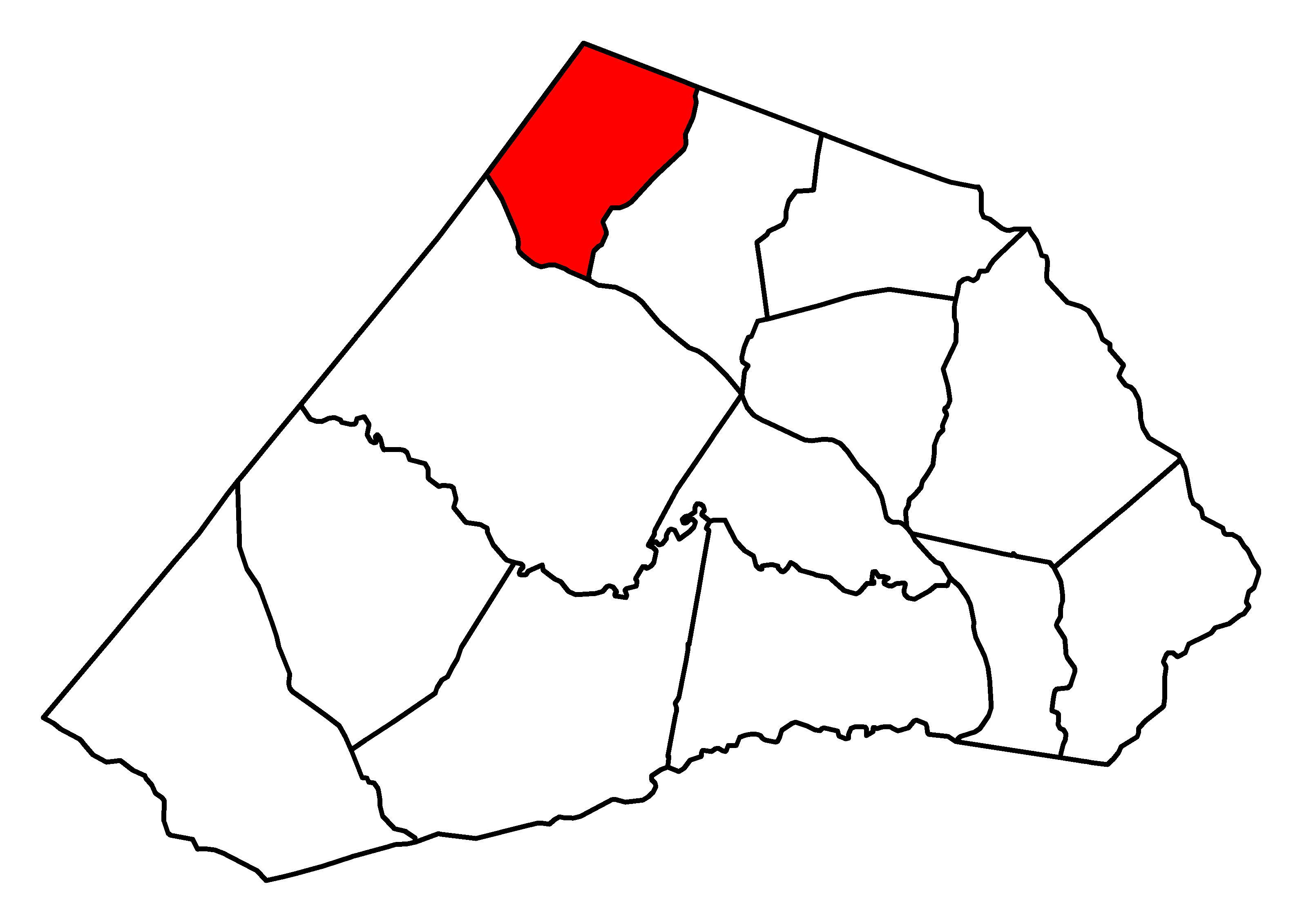 Map of Buckhorn Township, Harnett County, North Carolina